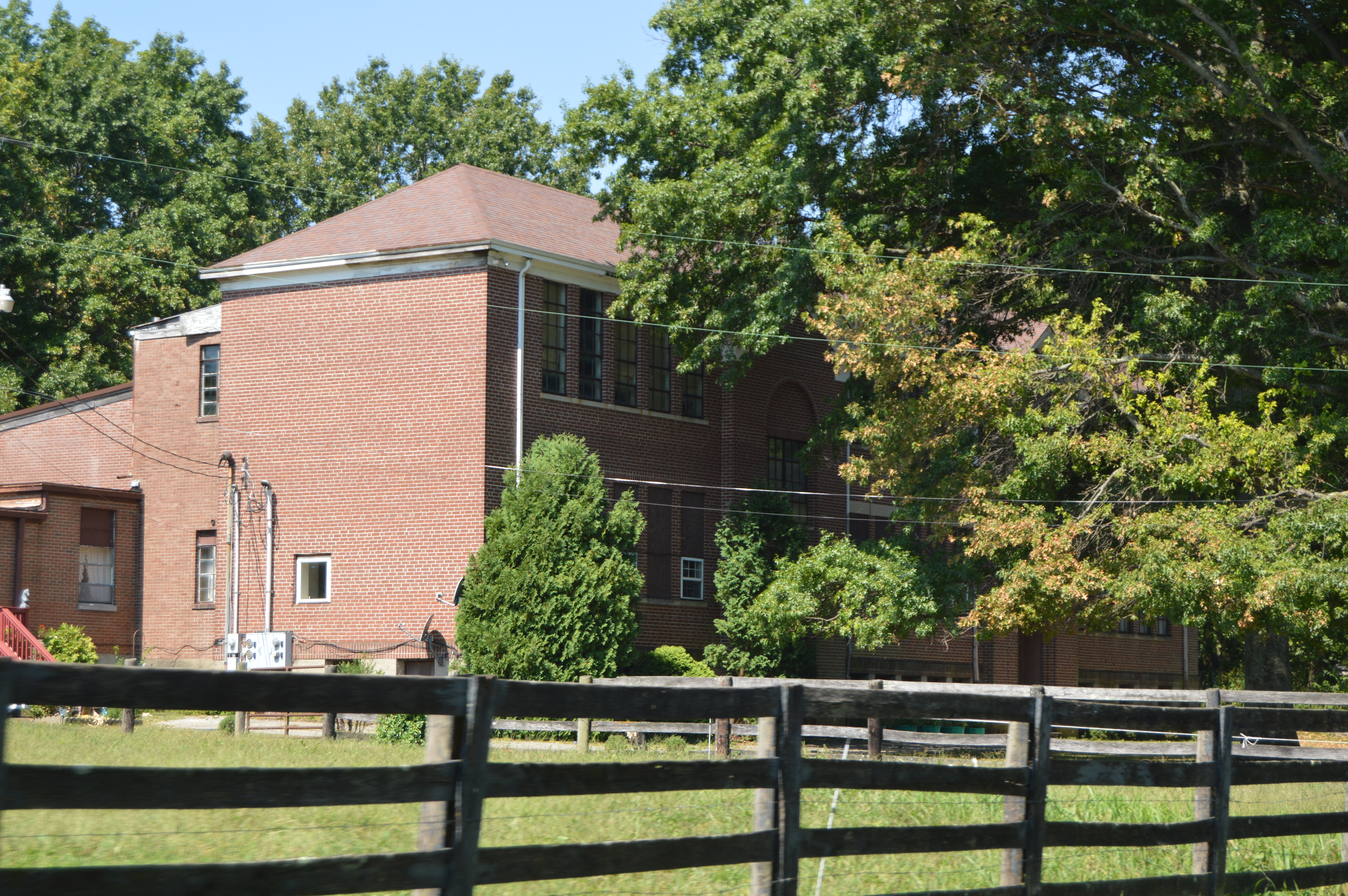 Eastern end and front of the former Little Rock community school, located on Kentucky Route 537 west of See Road in Bourbon County, Kentucky, United States. Built in 1929, it has been converted into apartments.